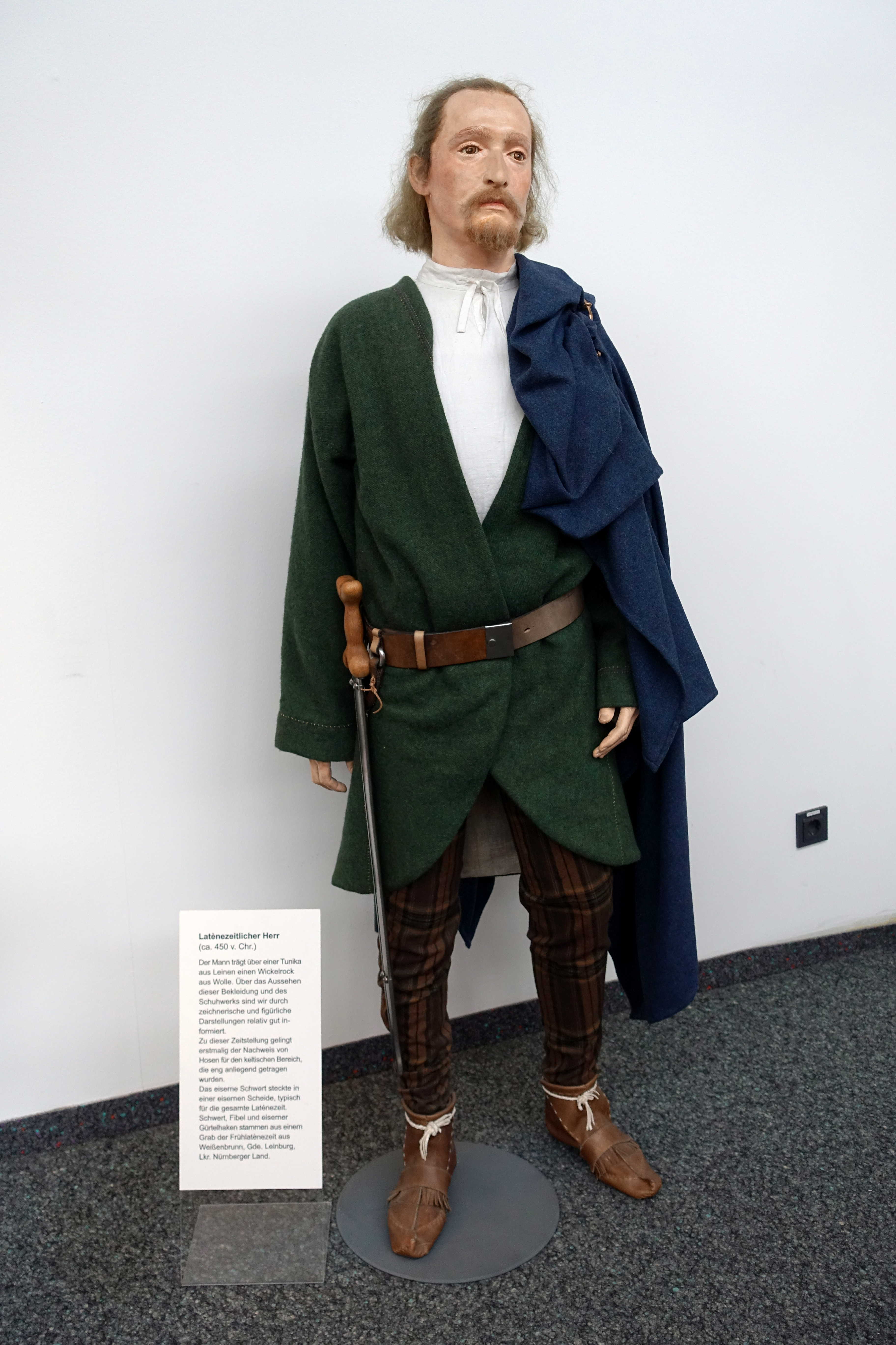 Exhibit in the Naturhistorisches Museum Nürnberg - Nuremberg, Germany.